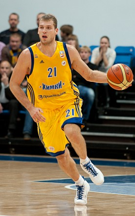 A BC Khimki forward Sergei Monia